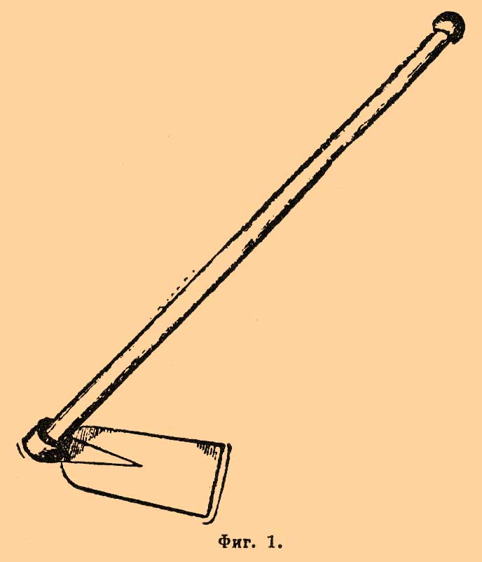 Illustration from Brockhaus and Efron Encyclopedic Dictionary (1890—1907)